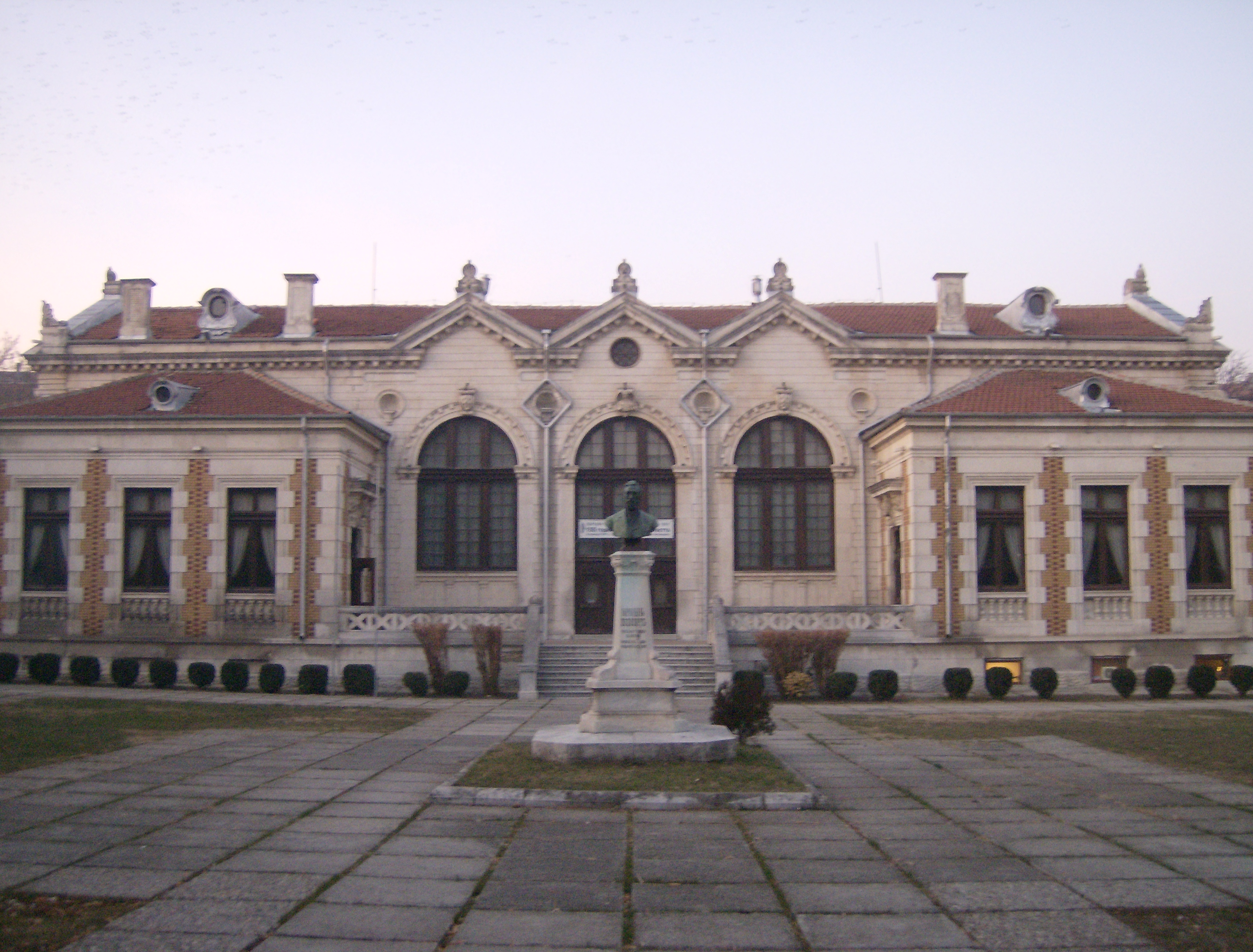 Chitalishte Dobri Voinikov